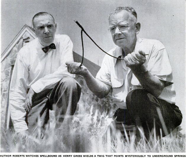 Kenneth Roberts with dowser Henry Gross.